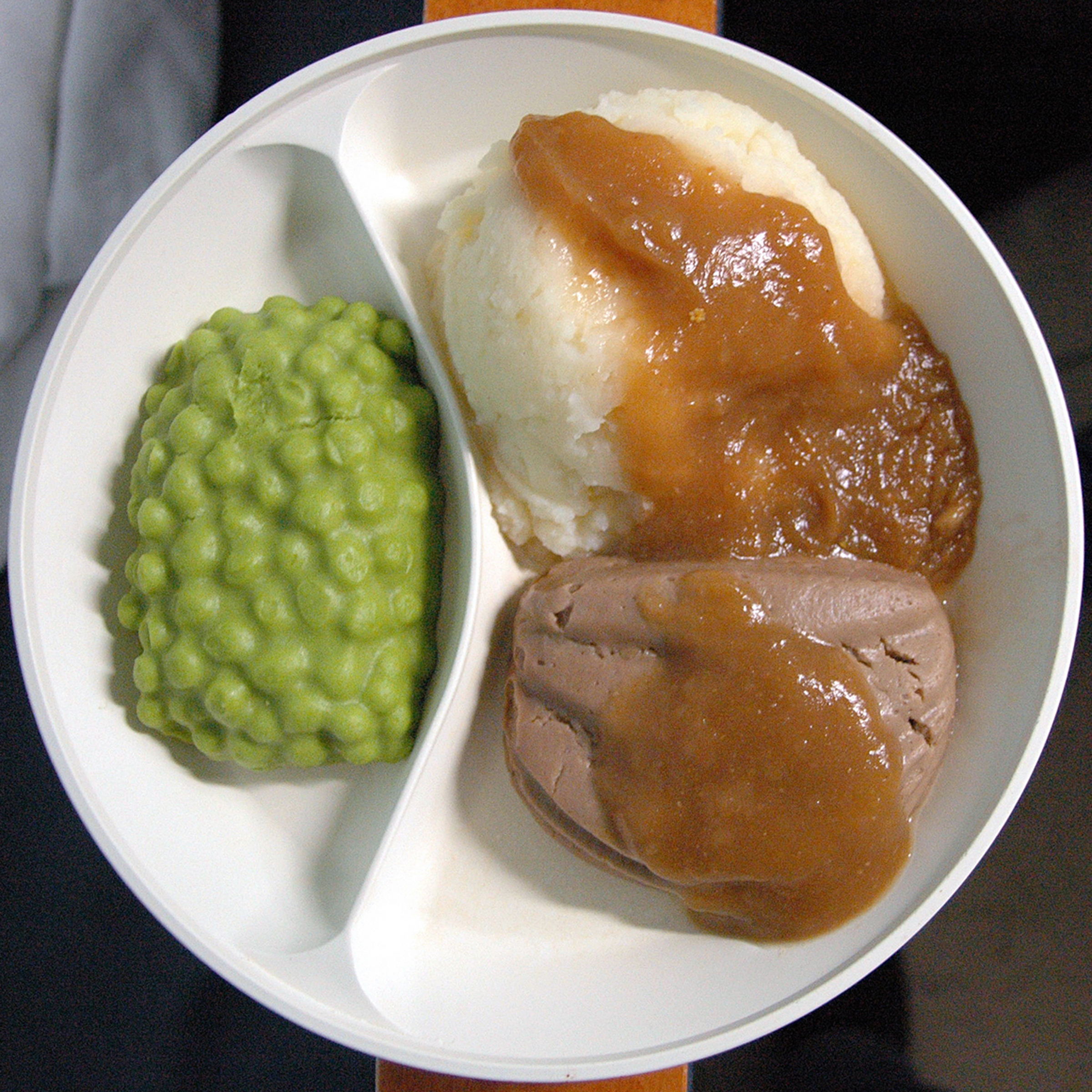 On the lighter side: One hilarious event during our hopital stay -- pulverized foods molded to look like thier real counterparts beef slices and peas. Only in this case, the peas were in actuality pureed broccoli spears.